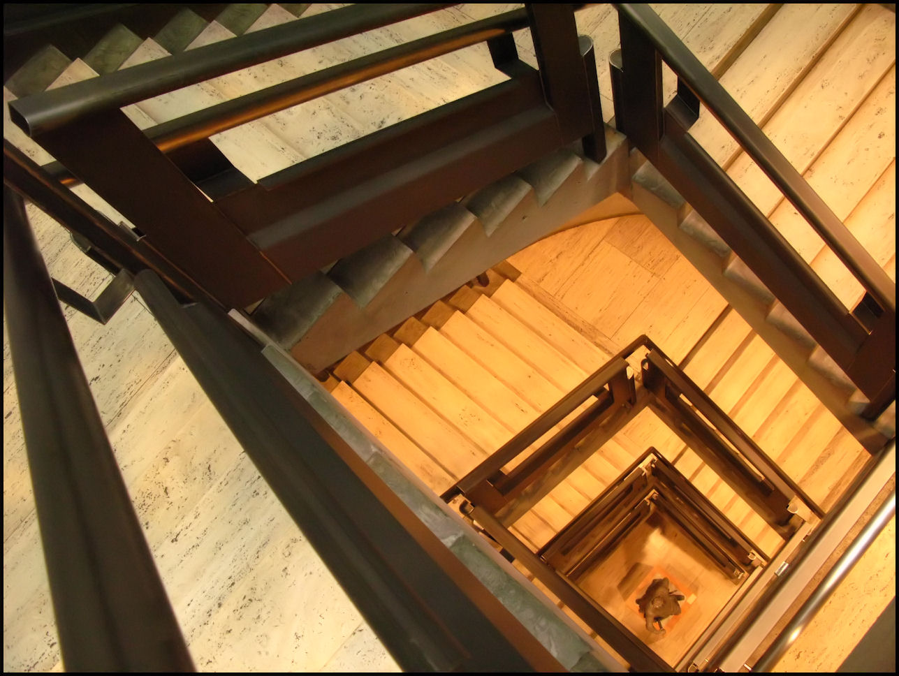 Yale Center for British Art — view down stairwell. Design: Louis Kahn.